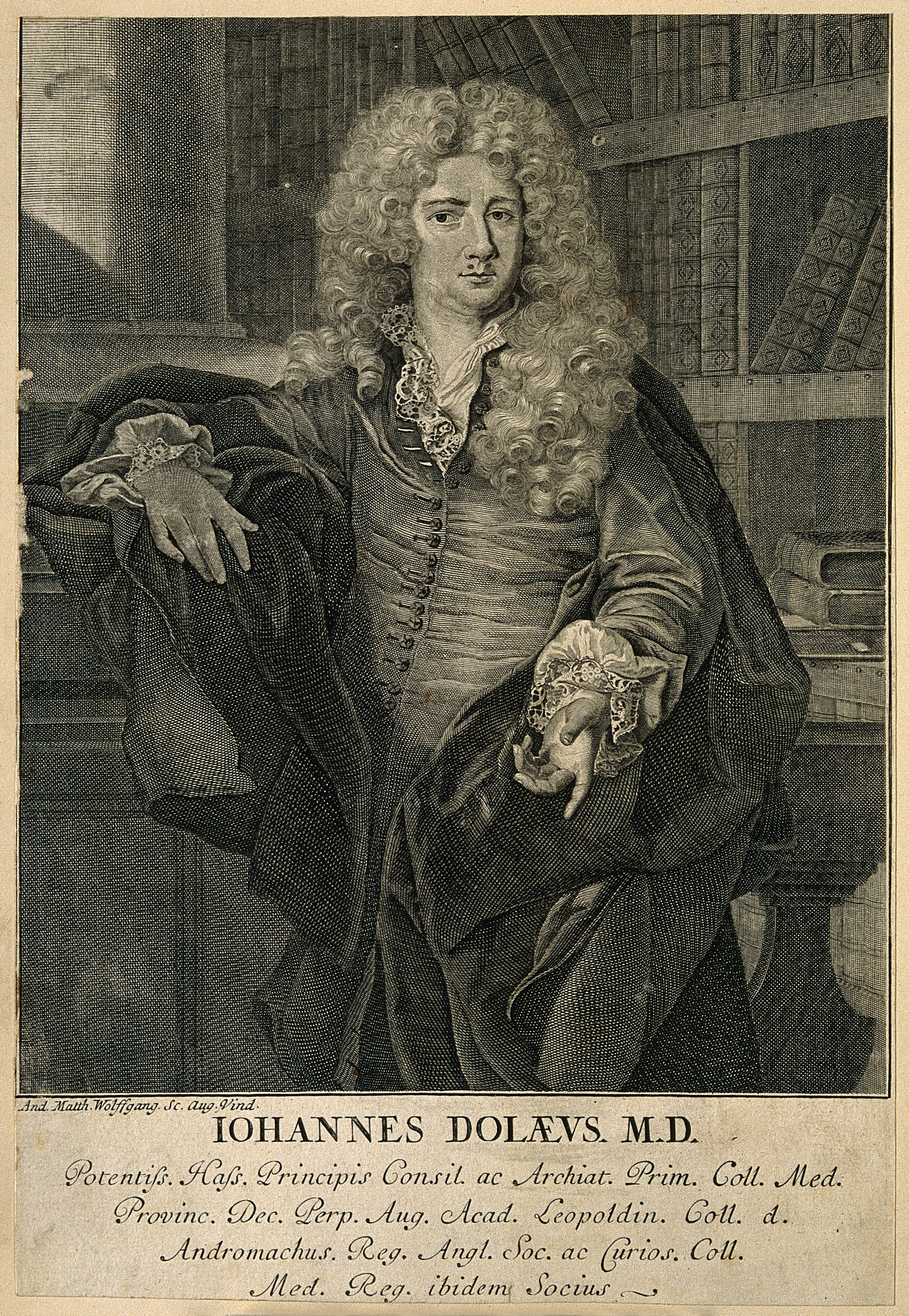 Johannes Dolaeus. Line engraving by A. M. Wolfgang. Iconographic Collections Keywords: portrait prints; Johann Dolaeus; engravings